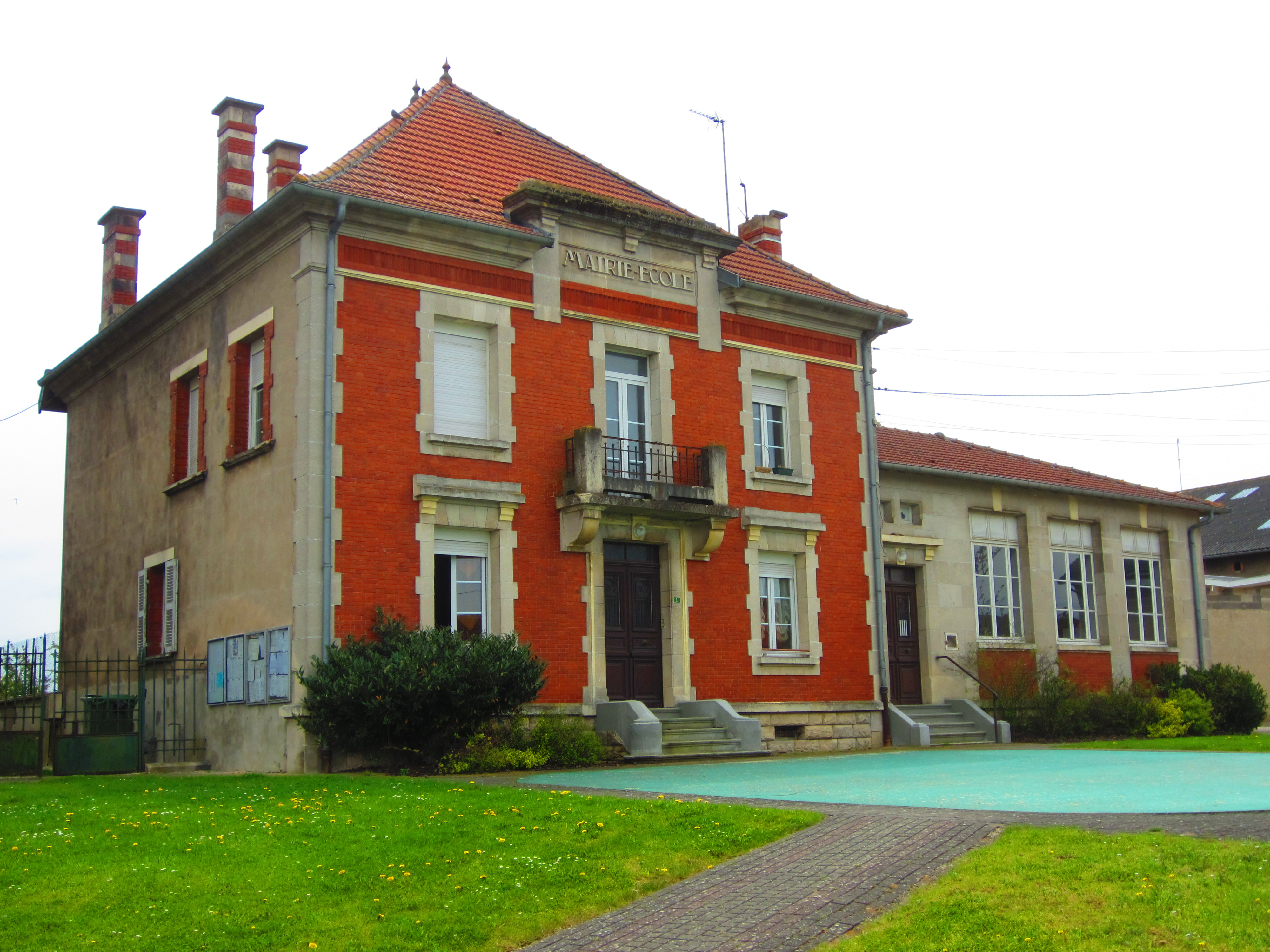 Ville Woevre town council